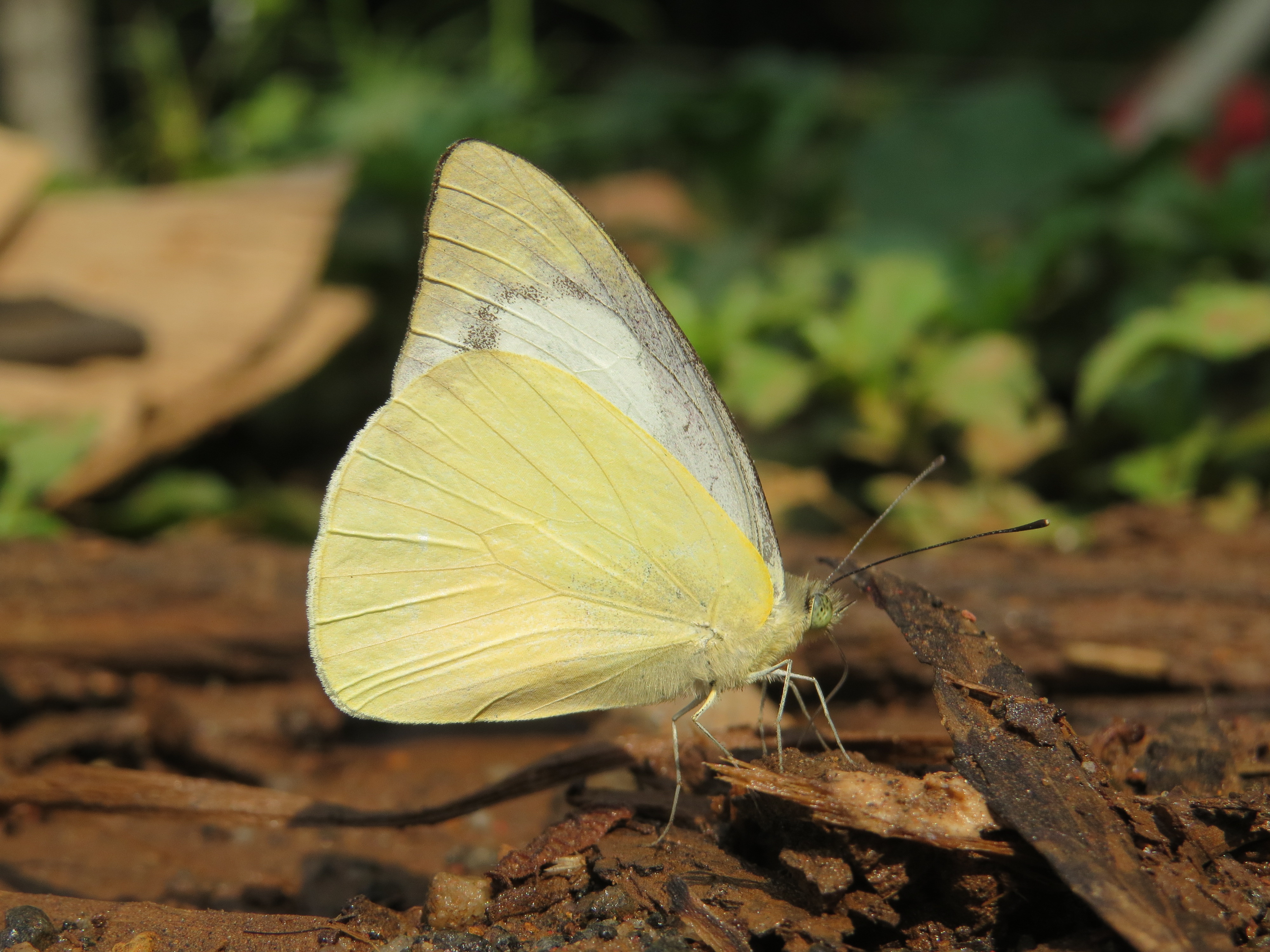 Photos taken during the 2016 Bird Survey at Kottiyoor Wildlife Sanctuary